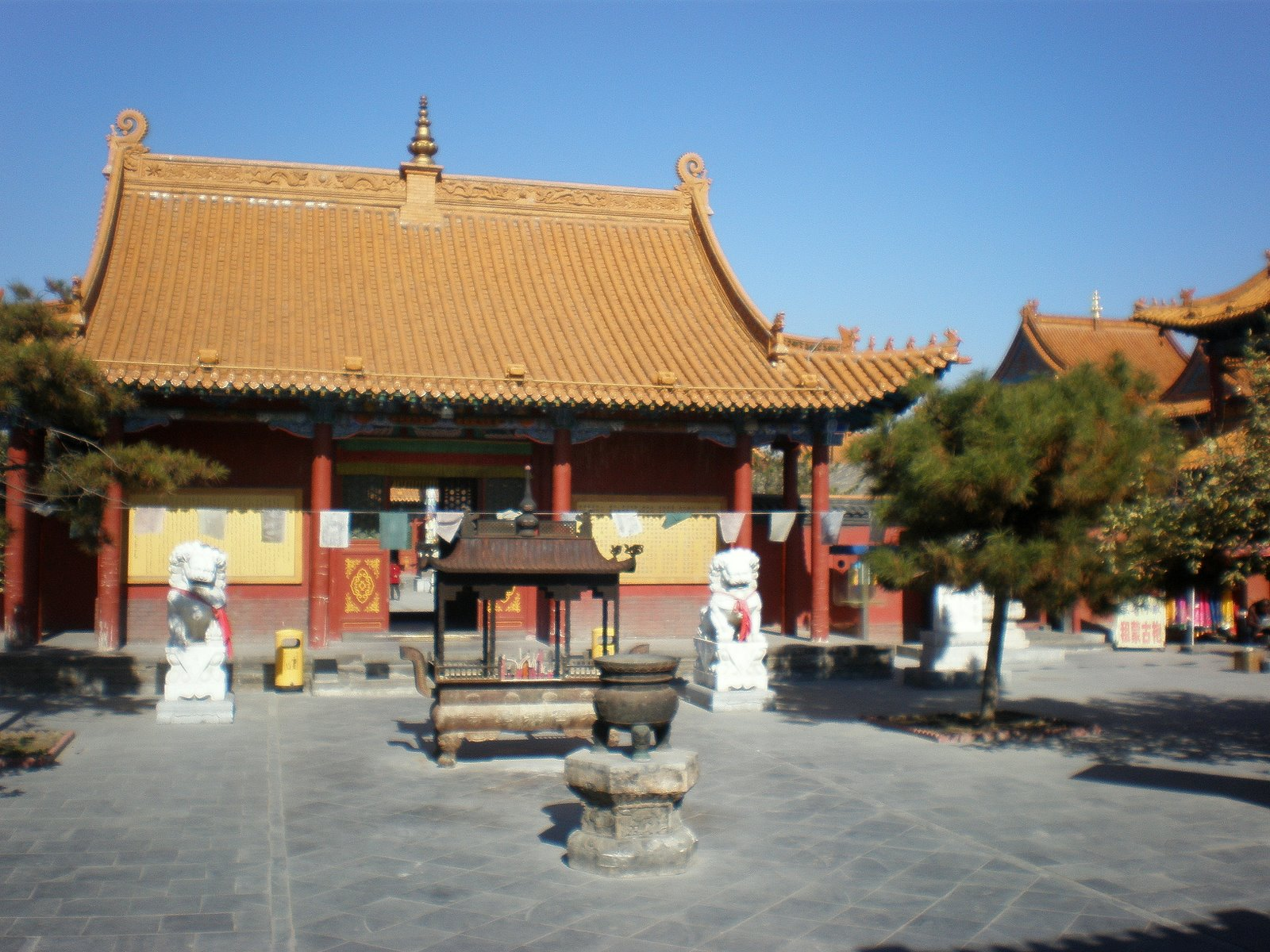 Da Zhao Temple (Chinese: 大召寺; pinyin: Dàzhào Sì) is a Buddhist monastery in the city of Hohhot in Inner Mongolia in north-west China. It is the largest temple in the city and is located in a narrow alley west of Tongdao Nan Jie.